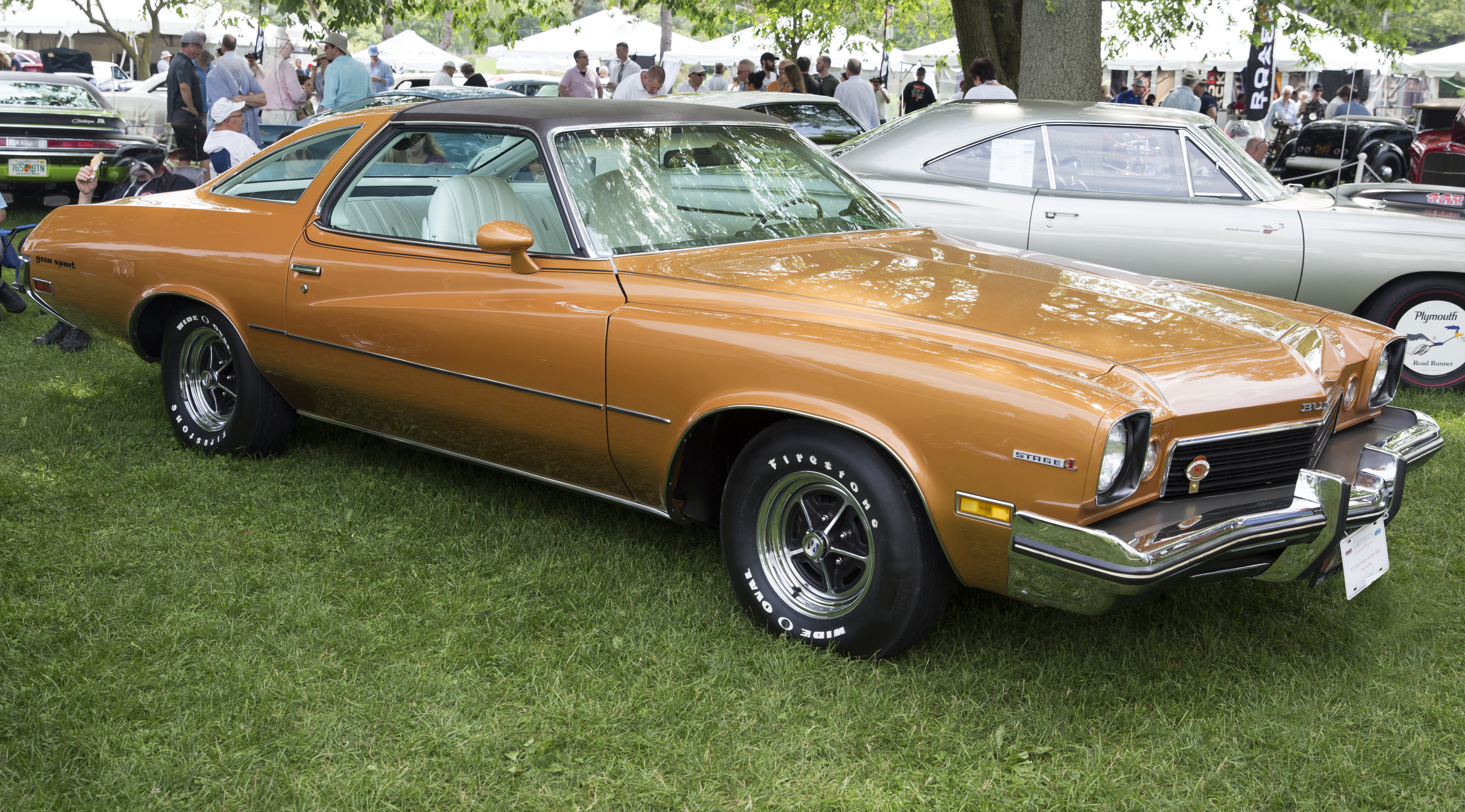 1973 Buick Century Gran Sport Stage I 2-door Colonnade Hardtop Coupe in Harvest Gold with a Dark Brown vinyl roof at the 2018 Greenwich Concours d'Elegance. Only 728 of the 270hp Stage I's were made, this is one of only 92 equipped with the four-speed Muncie manual transmission.